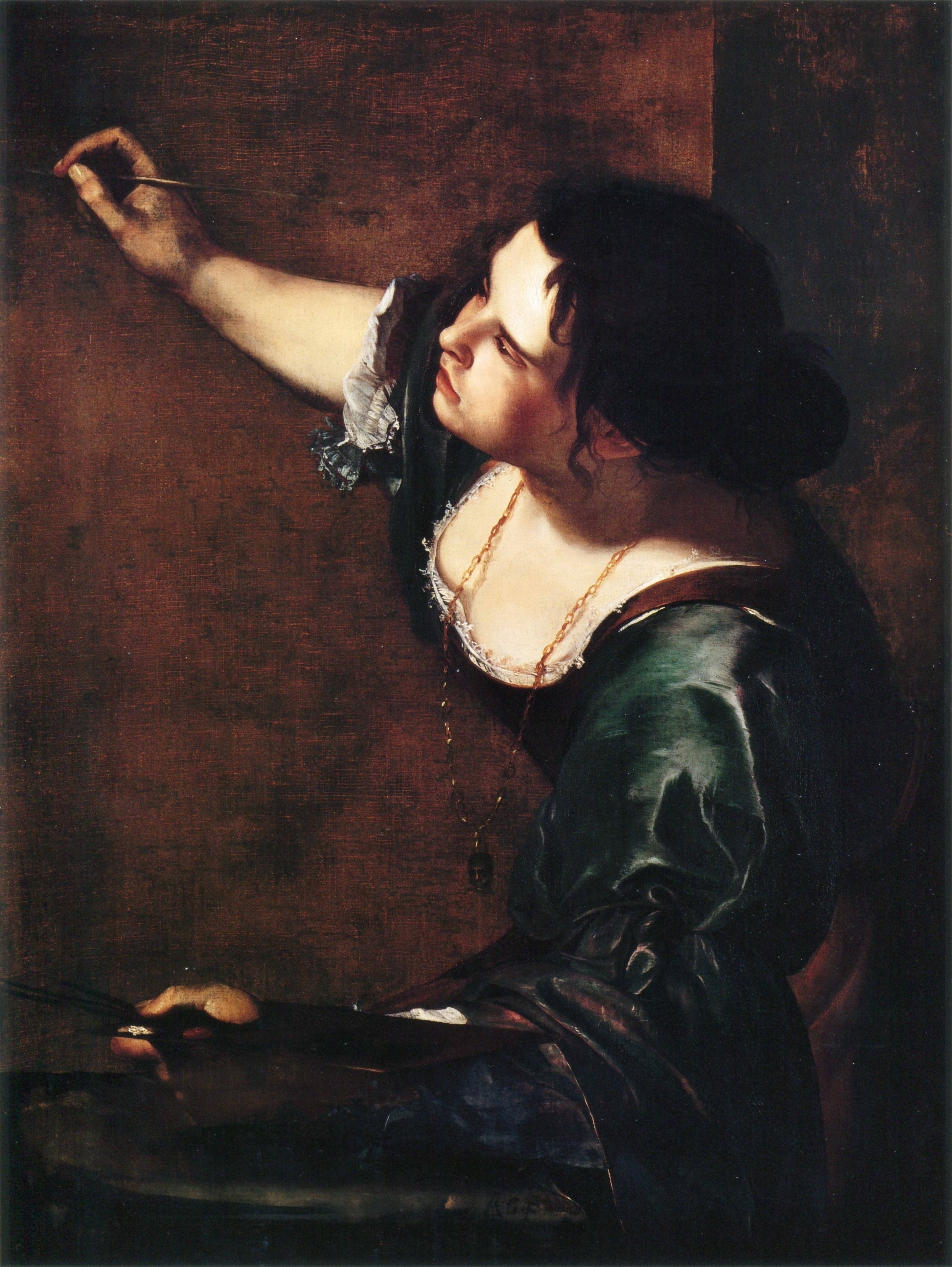 Depicted person: Artemisia Gentileschi